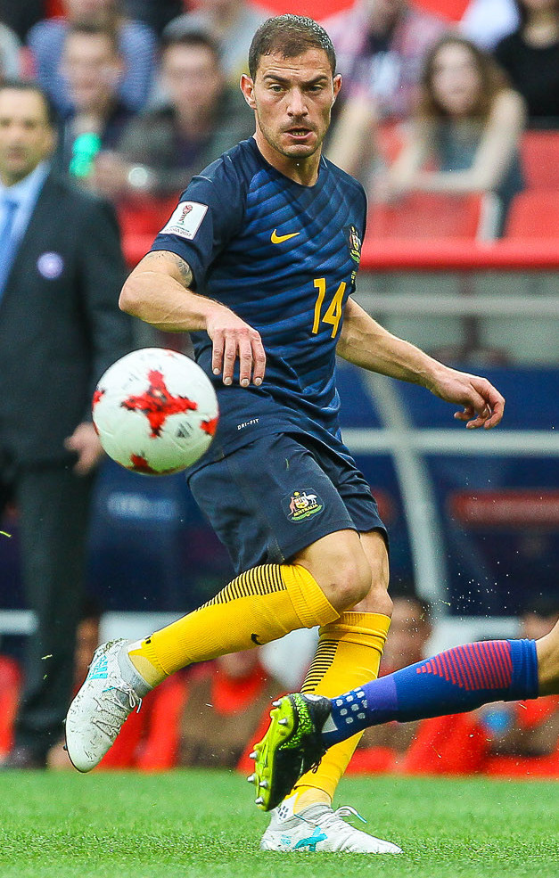 Chile VS. Australia 1 - 1, 25 June 2017